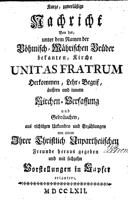 This is a scan of the historical document: Title: Kurze ... Nachricht von der ... Kirche Unitas Fratrum ... (a description of the "Moravian Brethren" church)